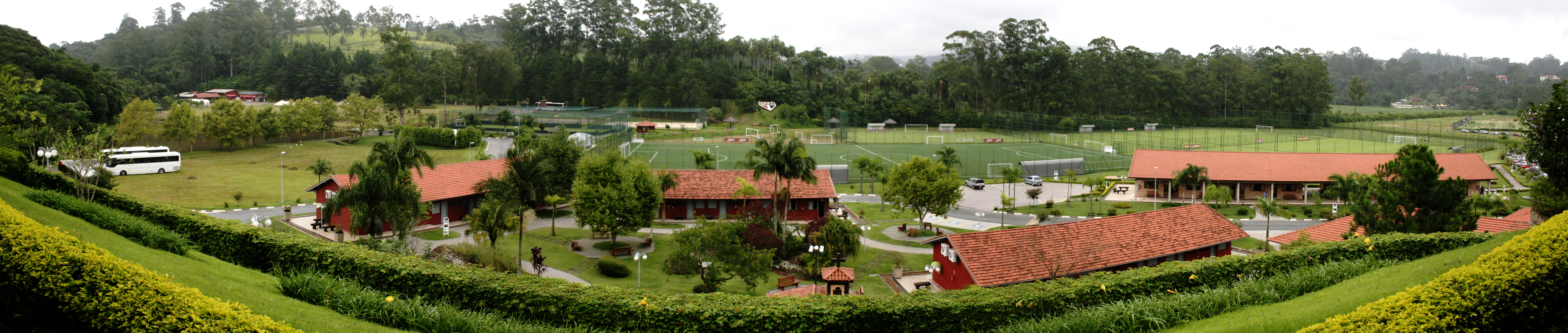 São Paulo Futebom Clube's Laudo Natel Forming Center of Athletes.